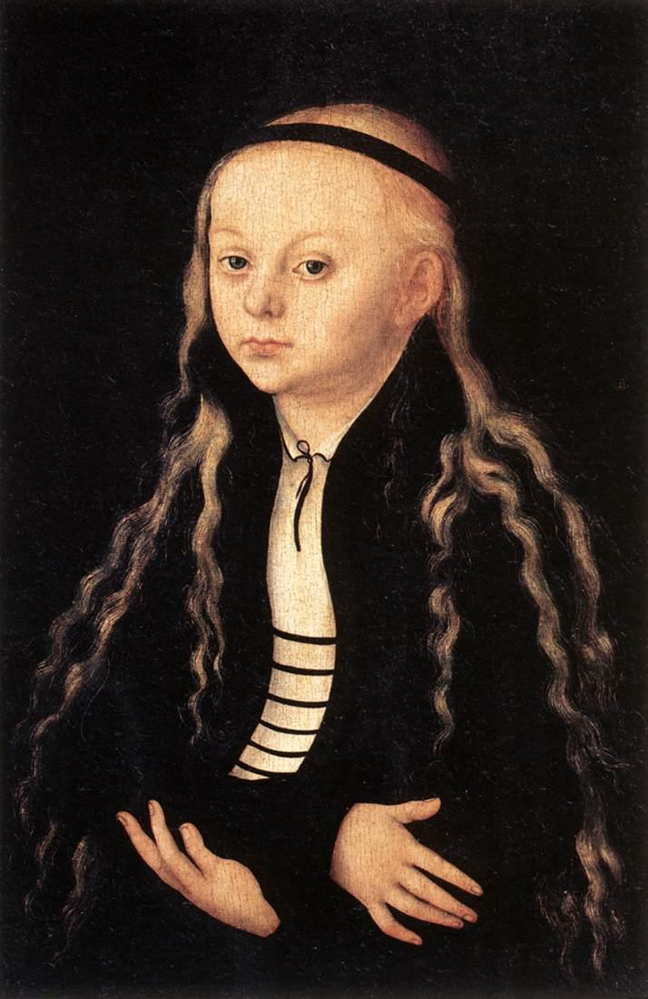 A painting of a young girl, later identified as Magdalena Luther.